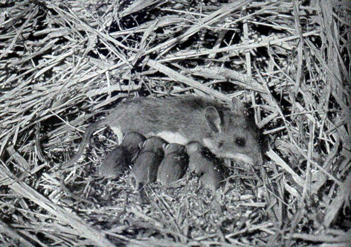 The original caption is: "White-footed mouse and young - by AA.R. dugmore. Mr. Dugmore ran a mile to restore the mother to her children, she having run into his pocket when frightened, and being found there later. courtesy of Doubleday, Page & Co.